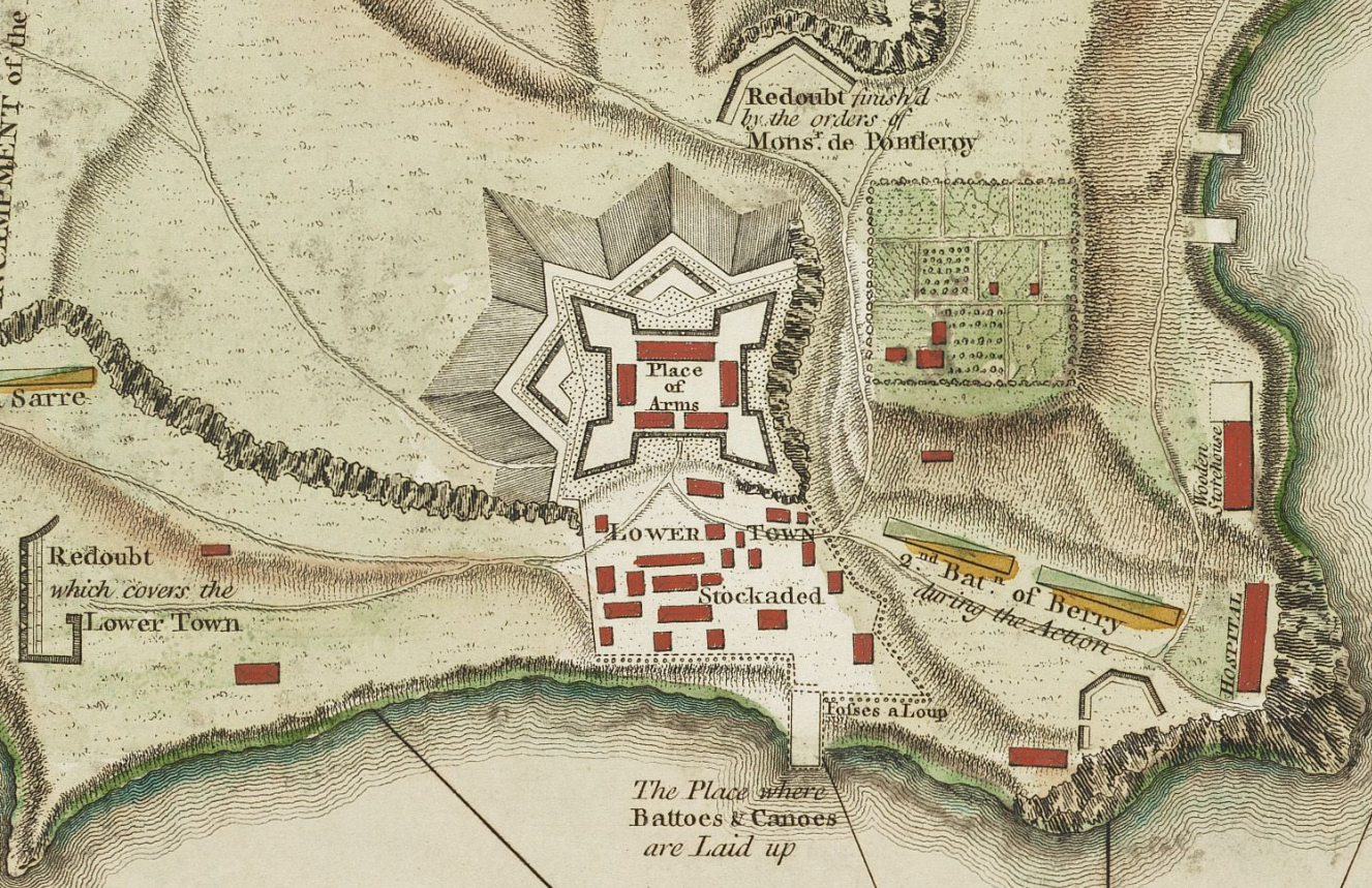 This is a detail from the source map showing the the layout of Fort Ticonderoga (then known as Fort Carillon) in 1758.